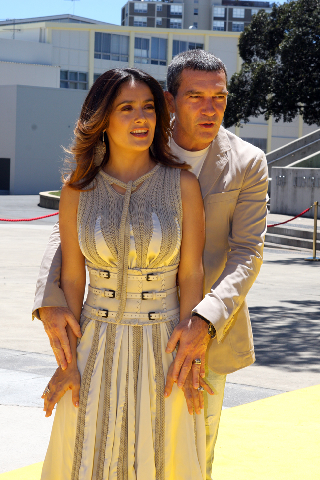 Antonio Banderas and Salma Hayek at Puss in Boots premiere at Moore Park, Fox Studios in Sydney, Australia.